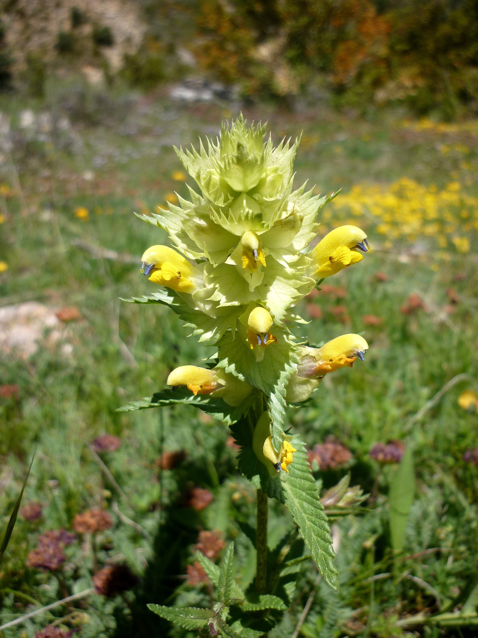 Rhinanthus pumilus. In l'Alzina d'Alinyà (Alt Urgell-Catalunya). To 1.460 m. altitude